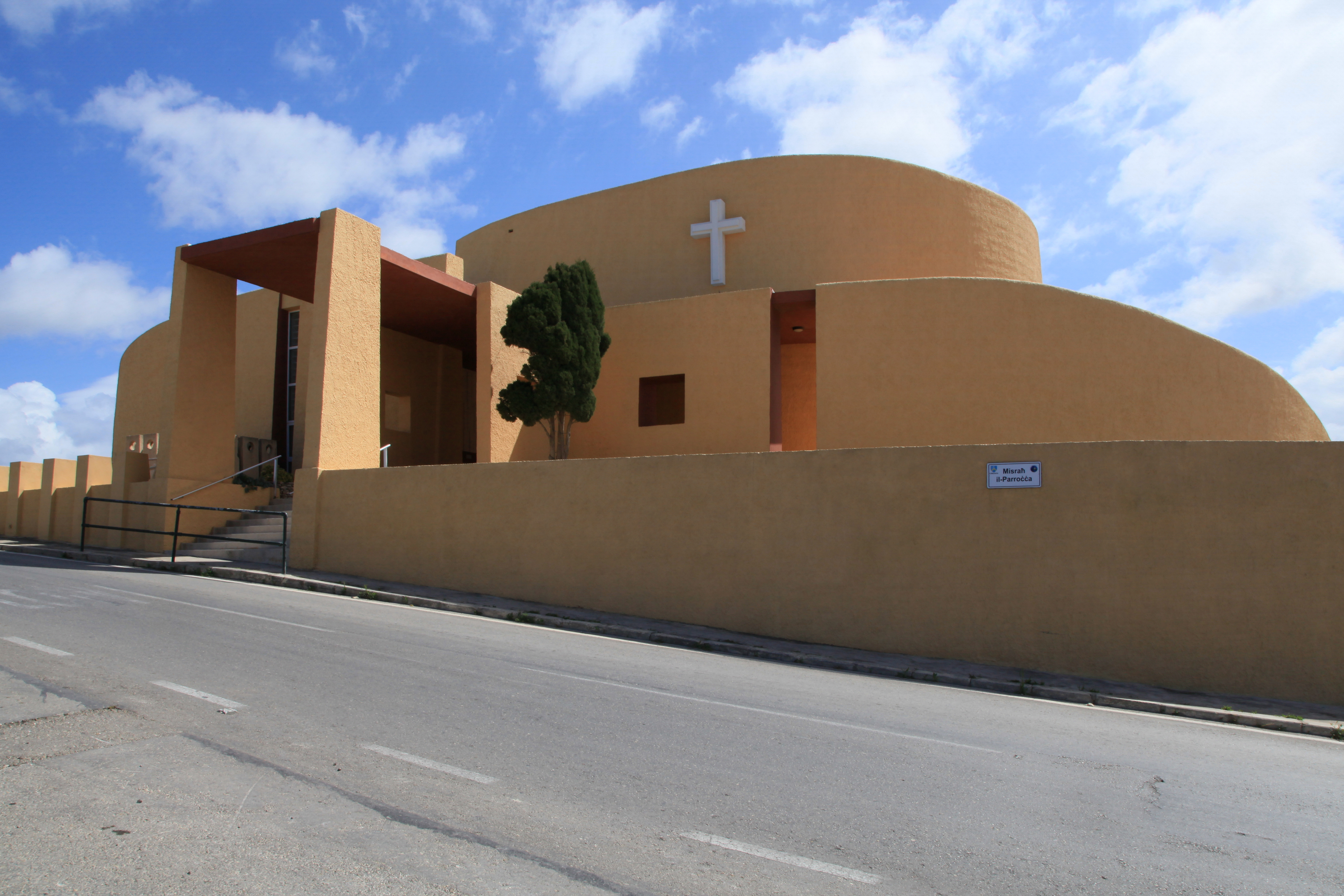 Manikata Parish Church at Triq il-Mellieħa / Misraħ il-Parroċċa in Il-Manikata, Mellieħa, Malta